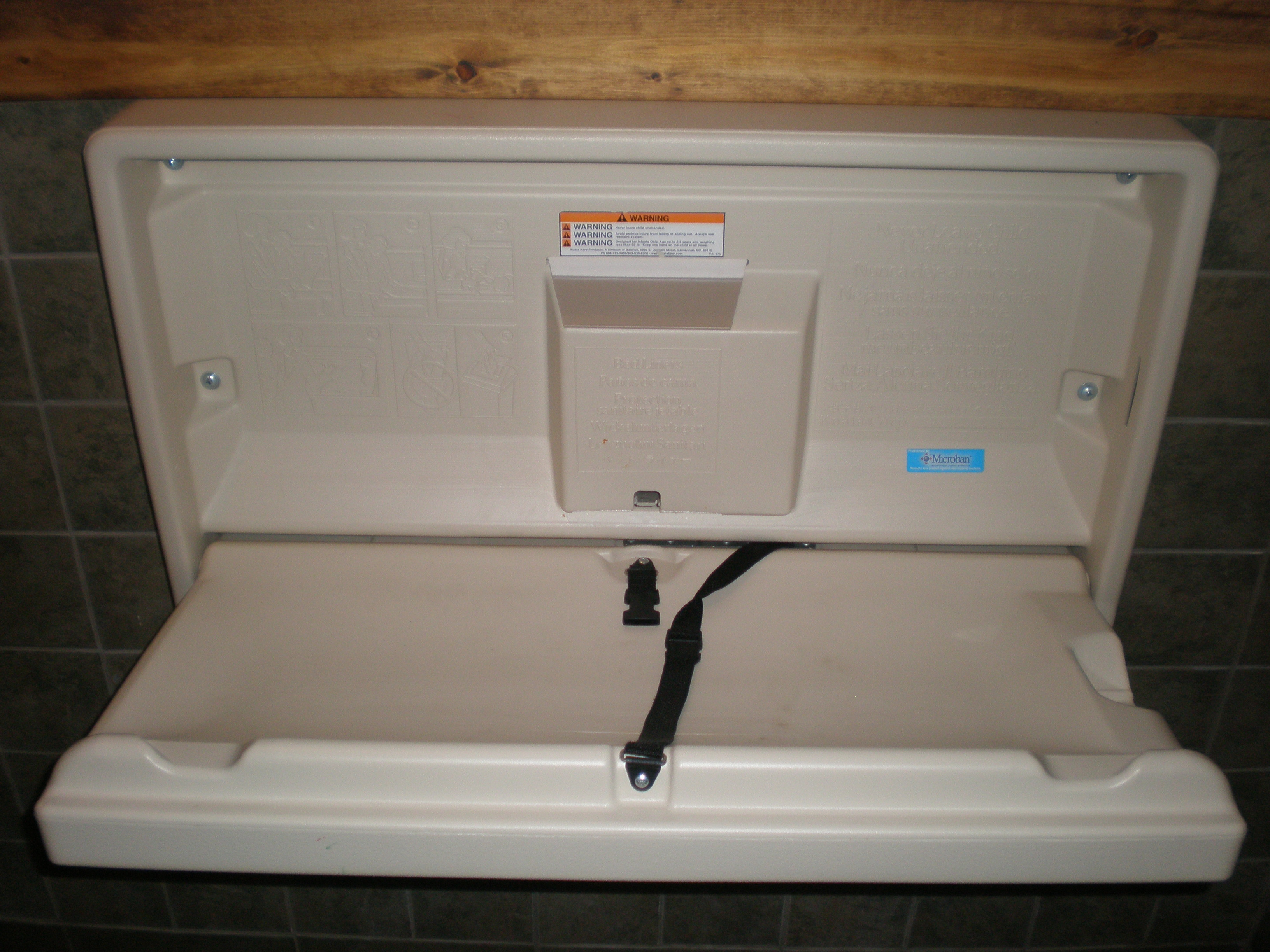 A Koala Kare changing table in the restroom of an Outback Steakhouse in San Mateo, California.